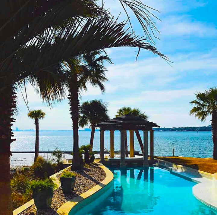 Ono Island, Al